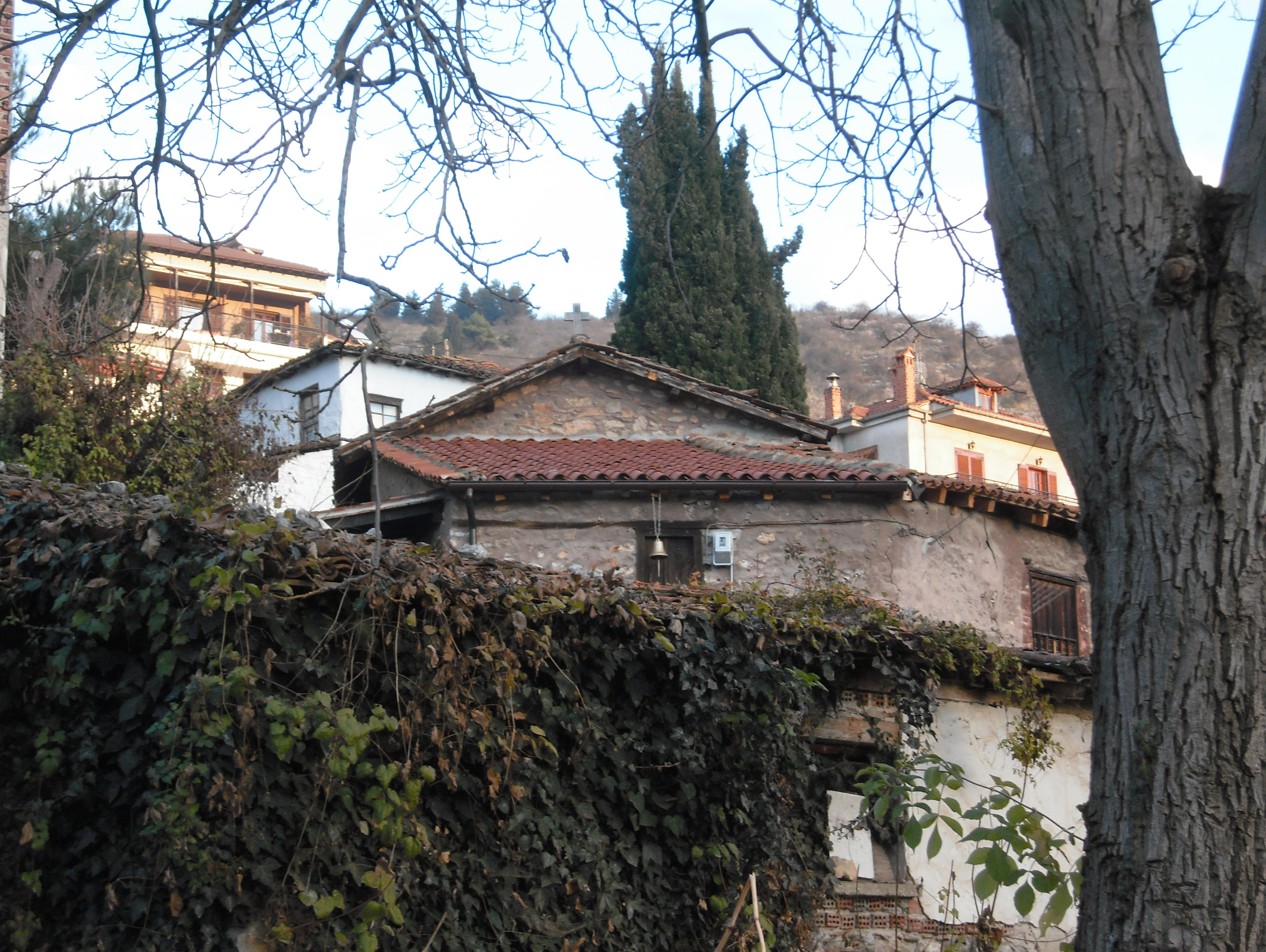 Views of Kostur / Kastoria